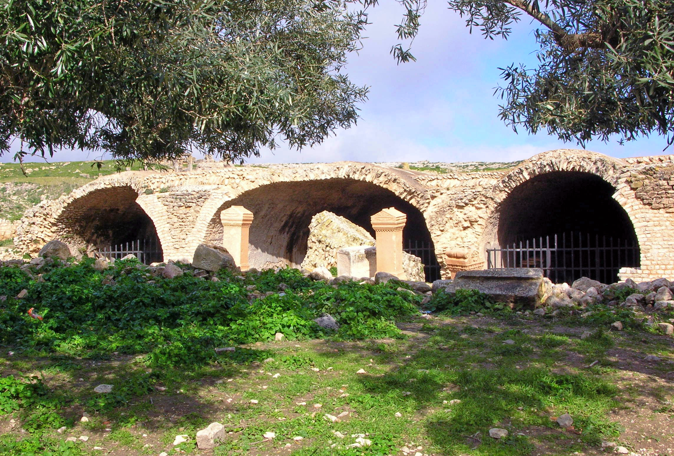 Cisterns of Ain Mizeb, Dougga, Tunisia